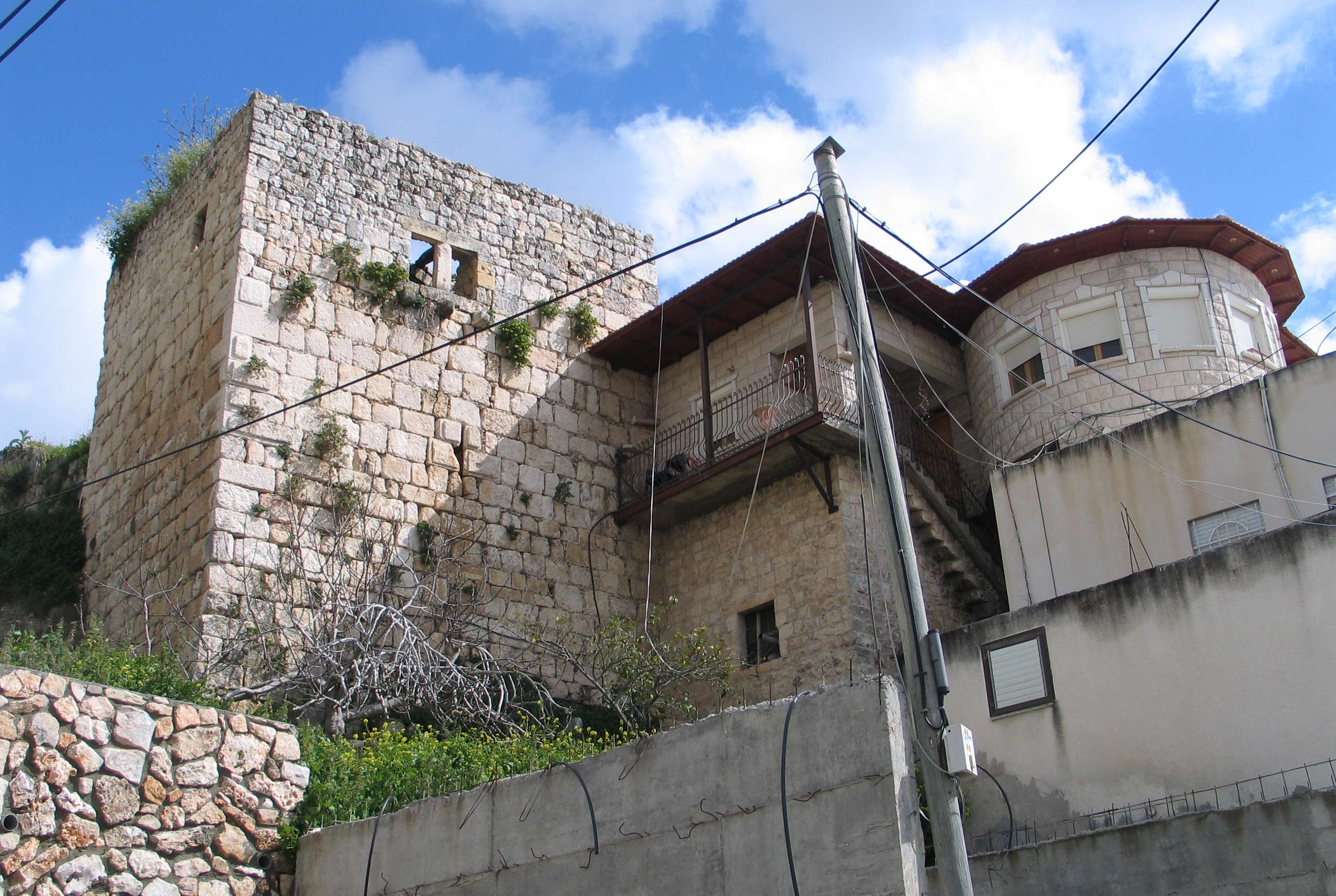 King's Castle, Mi'ilya, Israel.